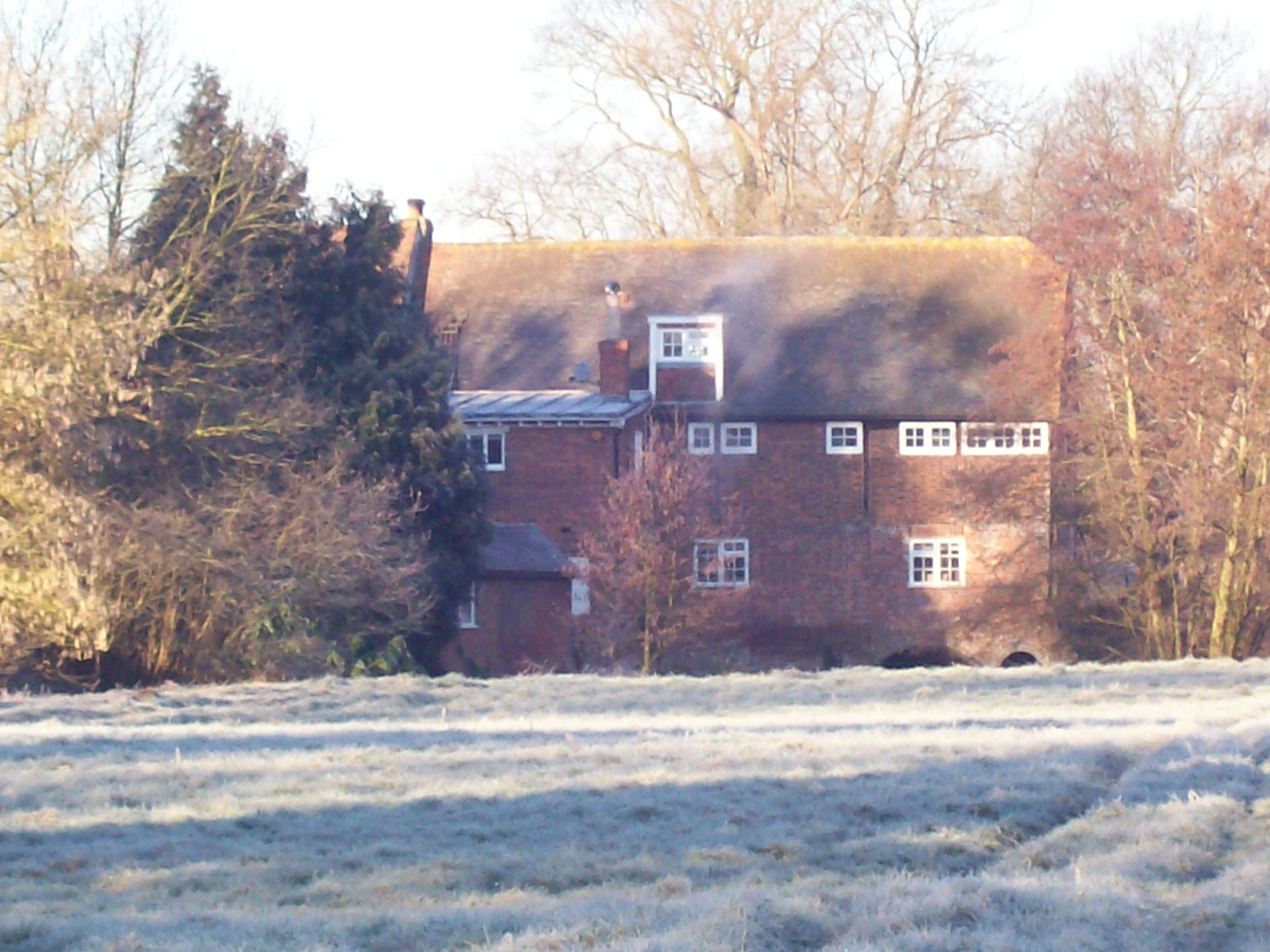 Photograph of Goldhill Mill, Golden Green